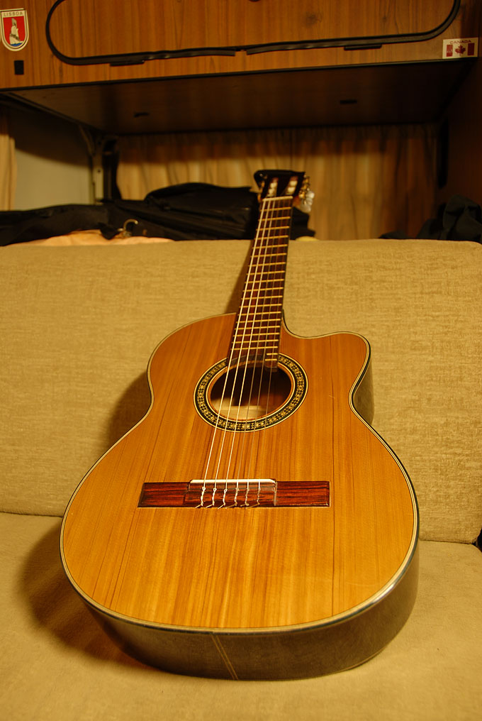 Requinto Guitar from Paracho, Mexico